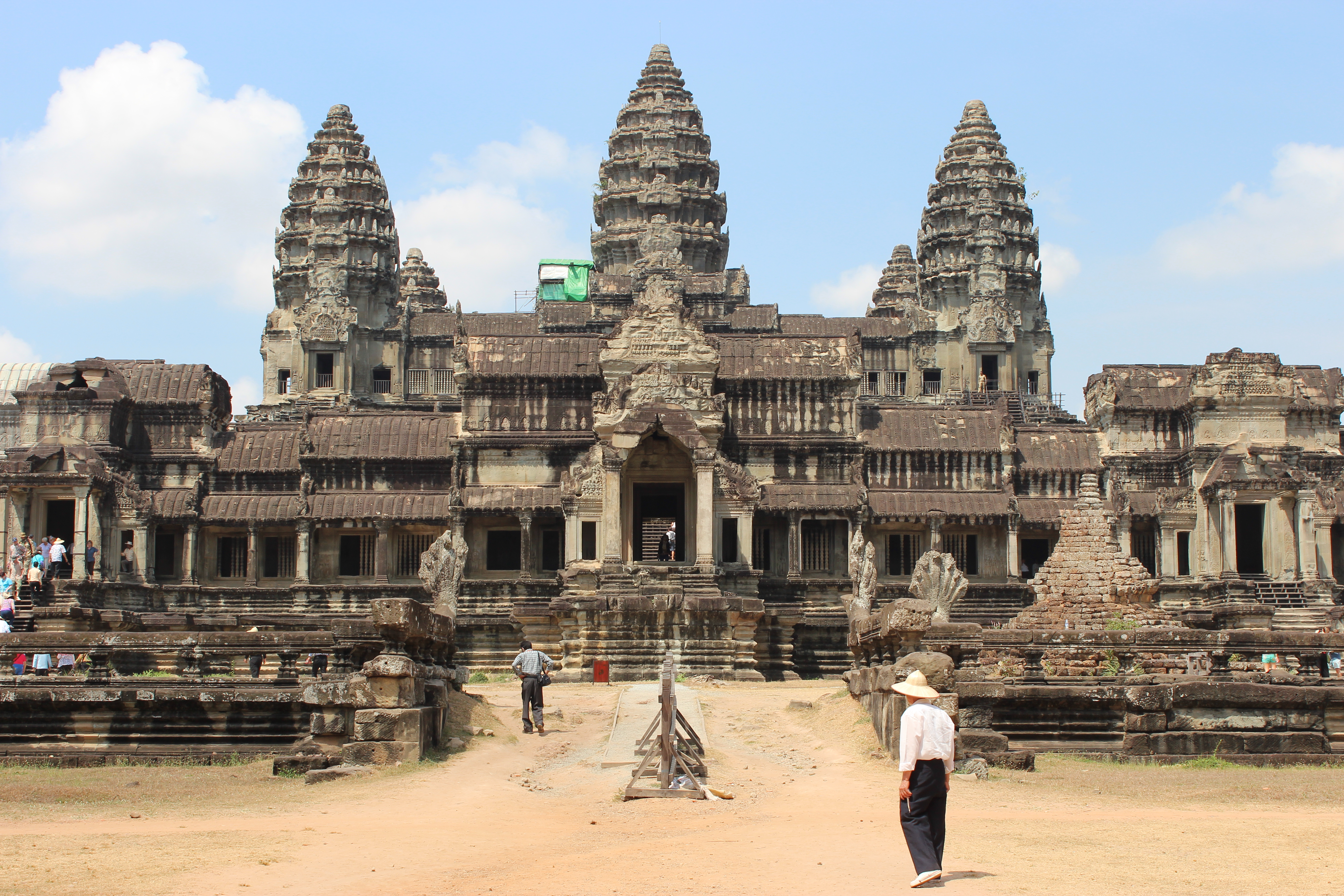 Angkor Wat, 2012